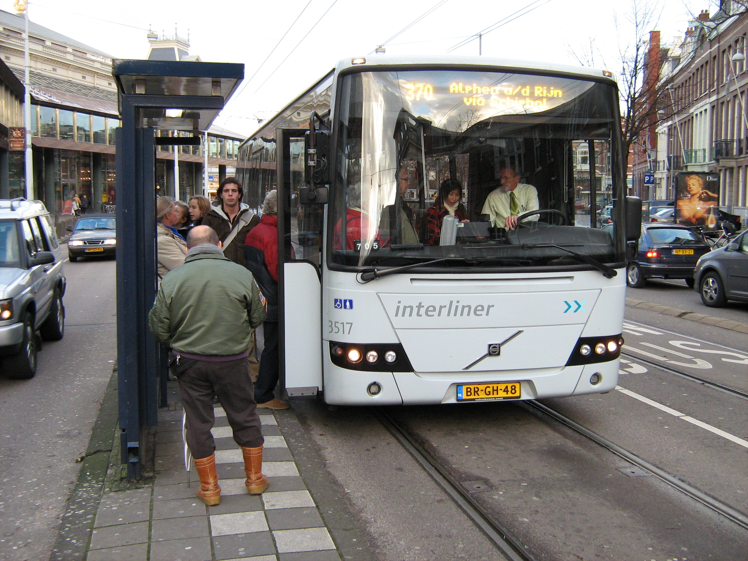 Volvo 8700 LE bus (reg. BR-GH-48, #3517) in Amsterdam, Netherlands. Built 2005, Connexxion operator.